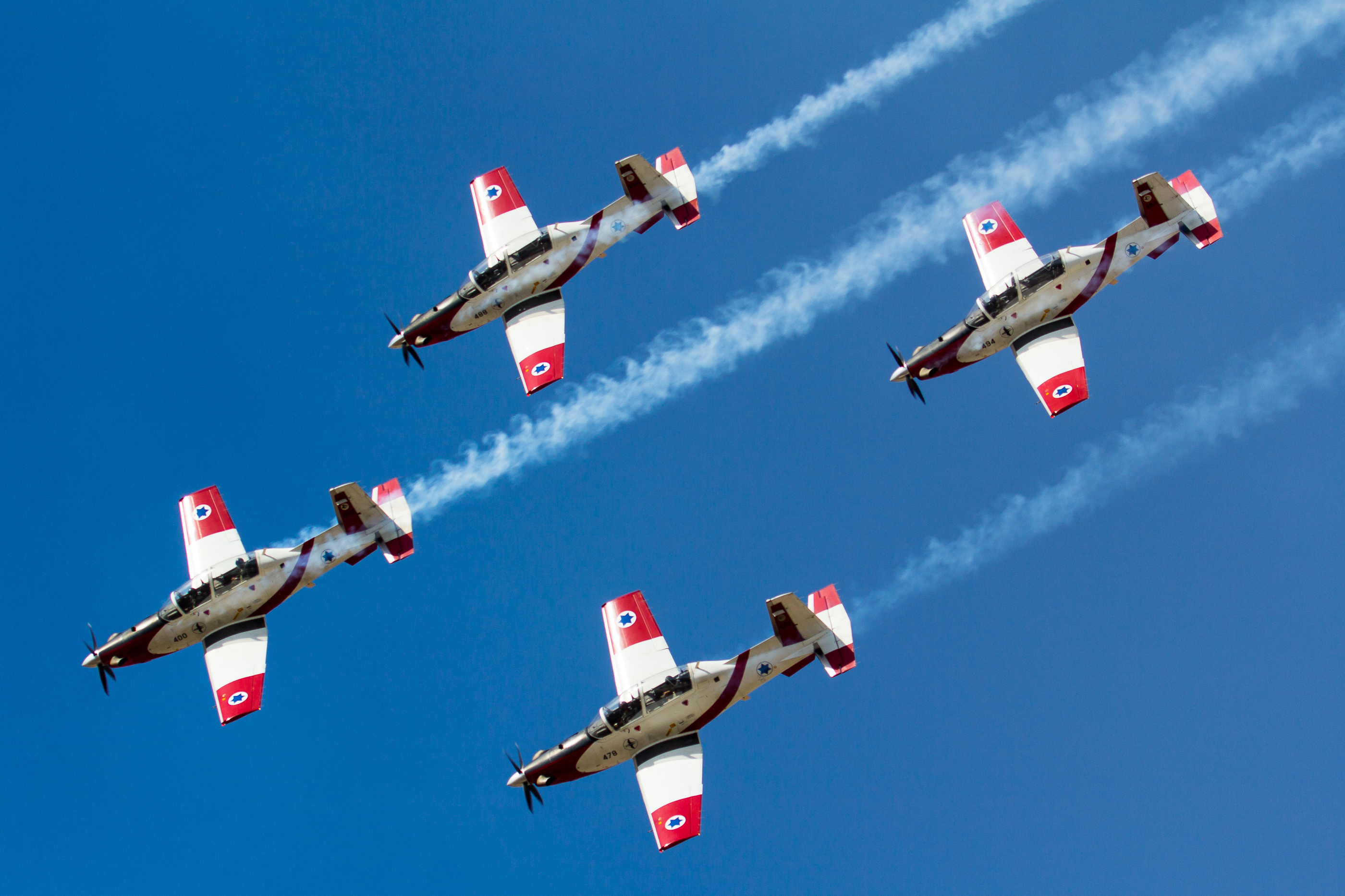 The Israeli Air Force Aerobatic Team performing over Ramat David AFB on Israel's 69th Independence Day.